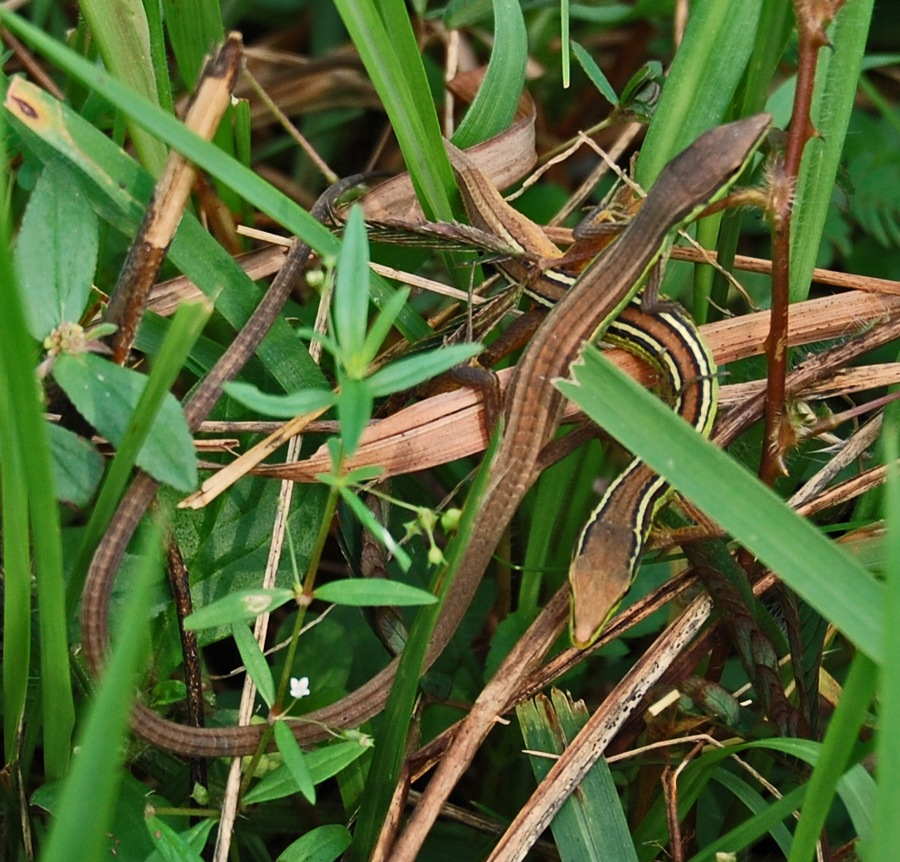 Takydromus sexlineatus in a pair, from Darmaga, Bogor, West Java, Indonesia